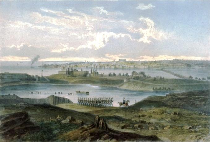 Print, Kingston, ON, Kingsriver